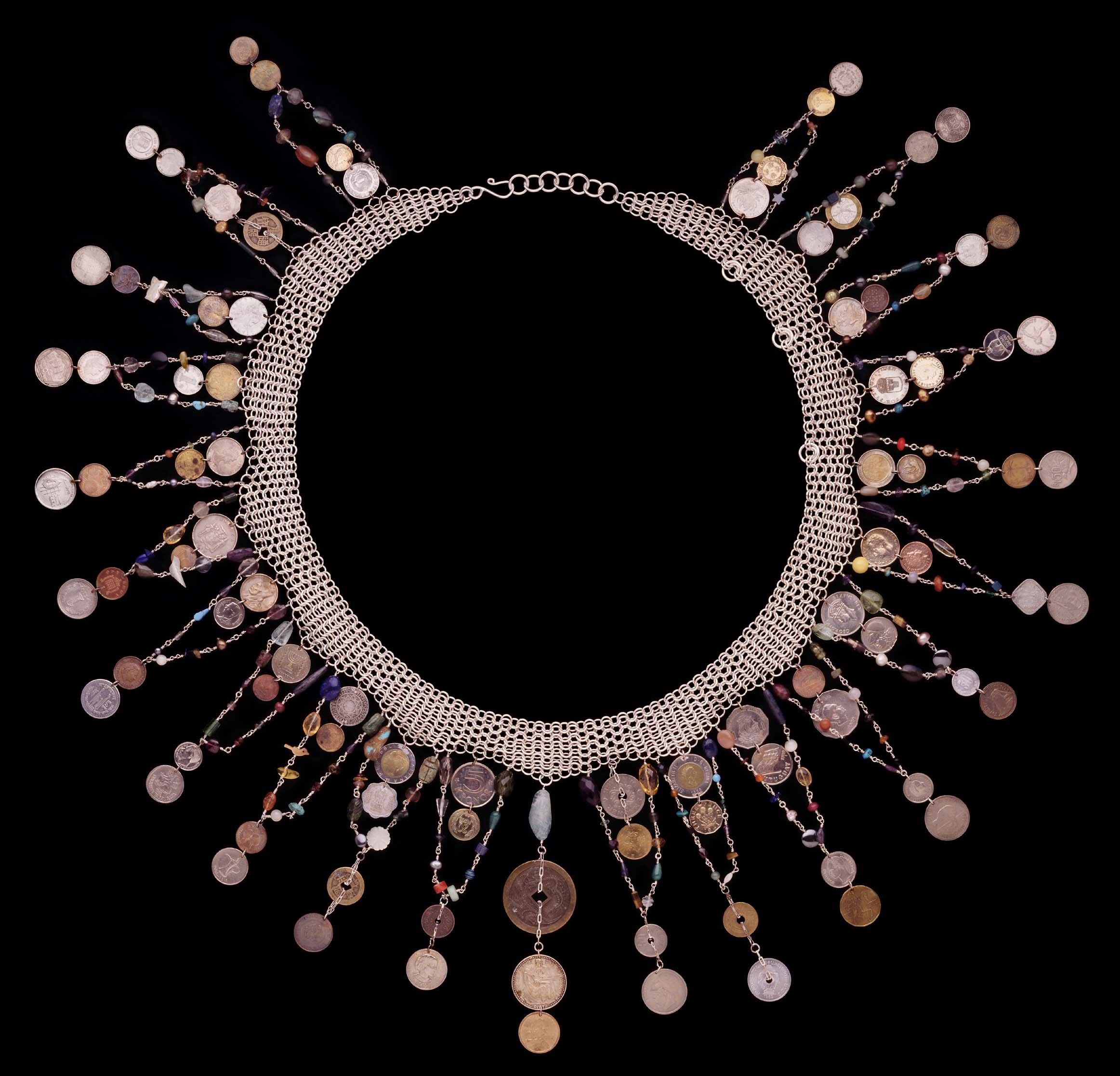 A symbol of the peaceful unity of all nations.